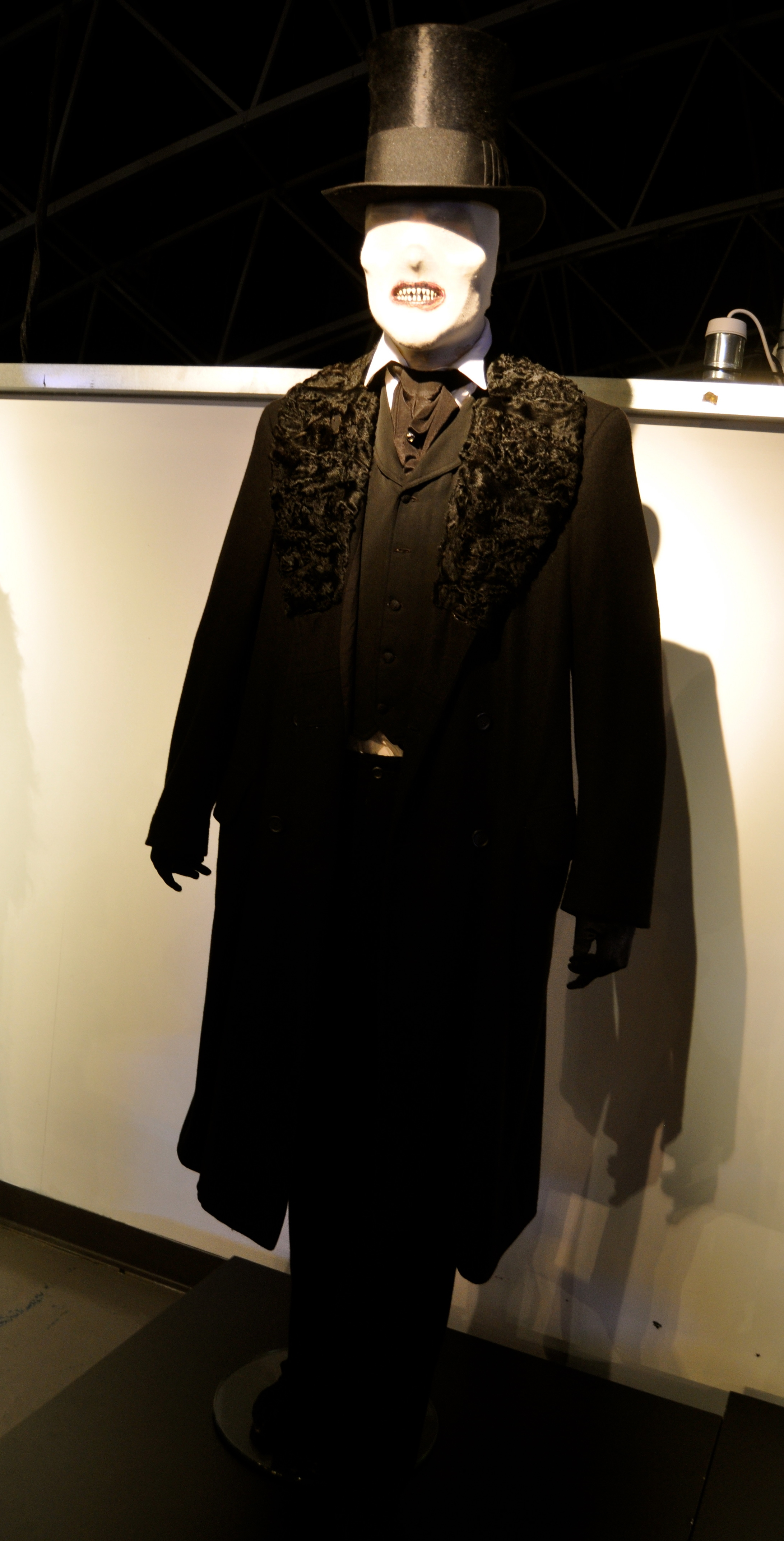 DWE Cardiff Bay, Port Teigr November 2016 Doctor Who Experience